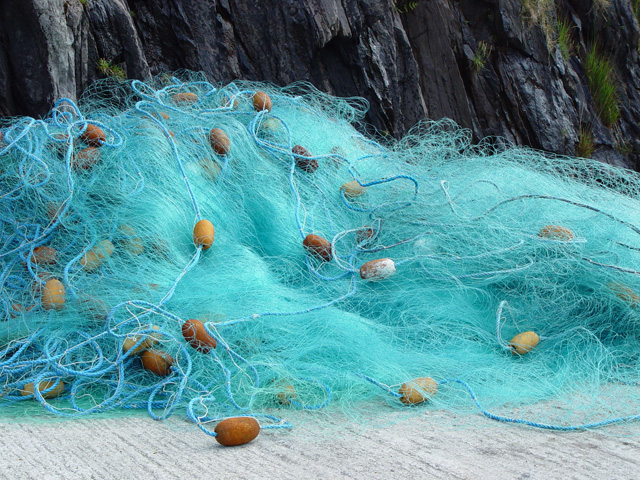 A fishing net in Brandon Creek This colourful net, with floats, was waiting for the next trip.